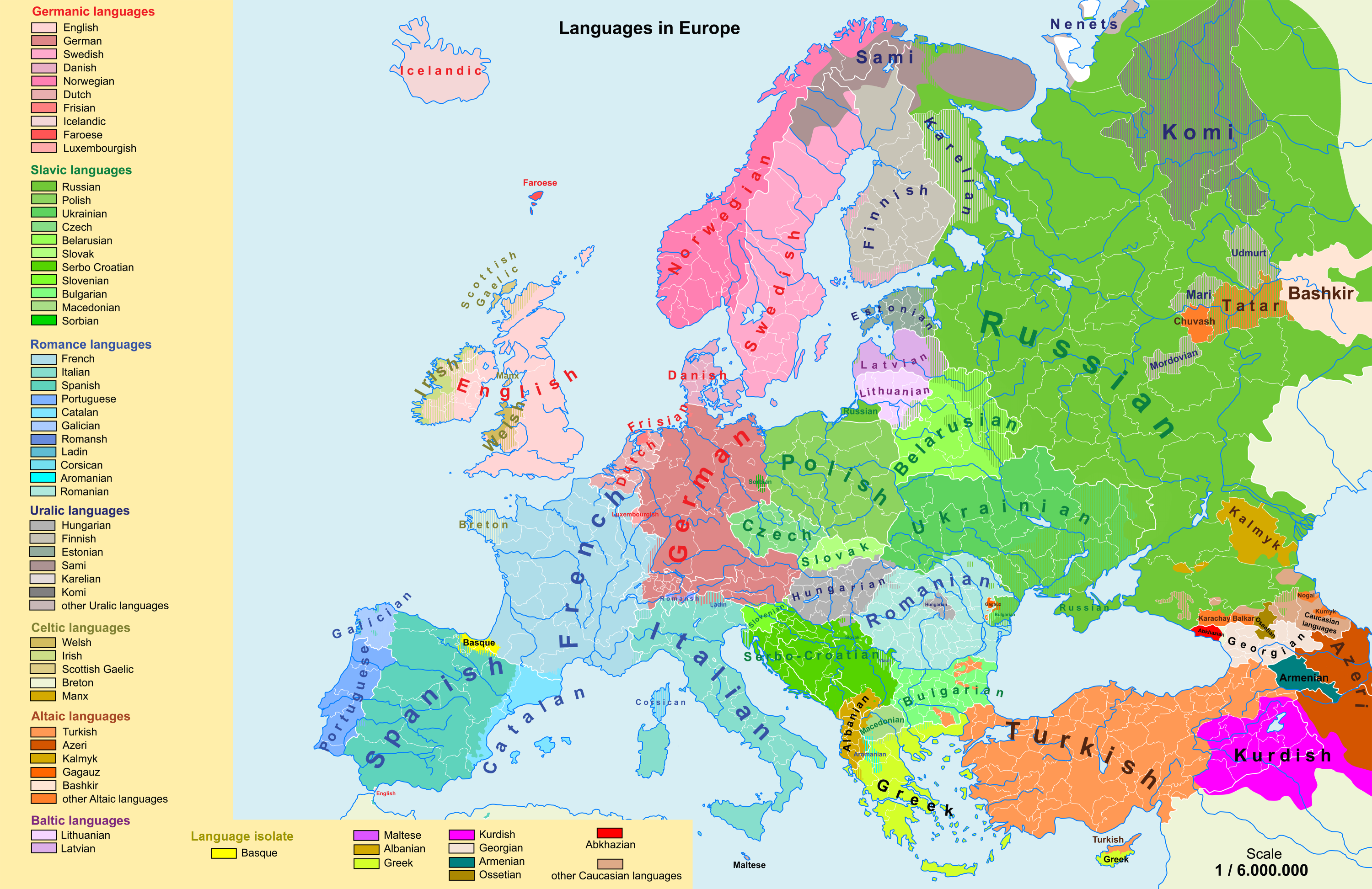 Languages of Europe